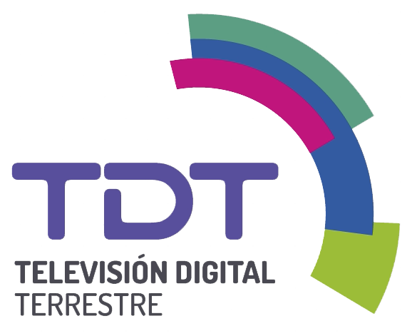 Official logo of the digital terrestrial television platform in Peru, issued by the Peruvian government